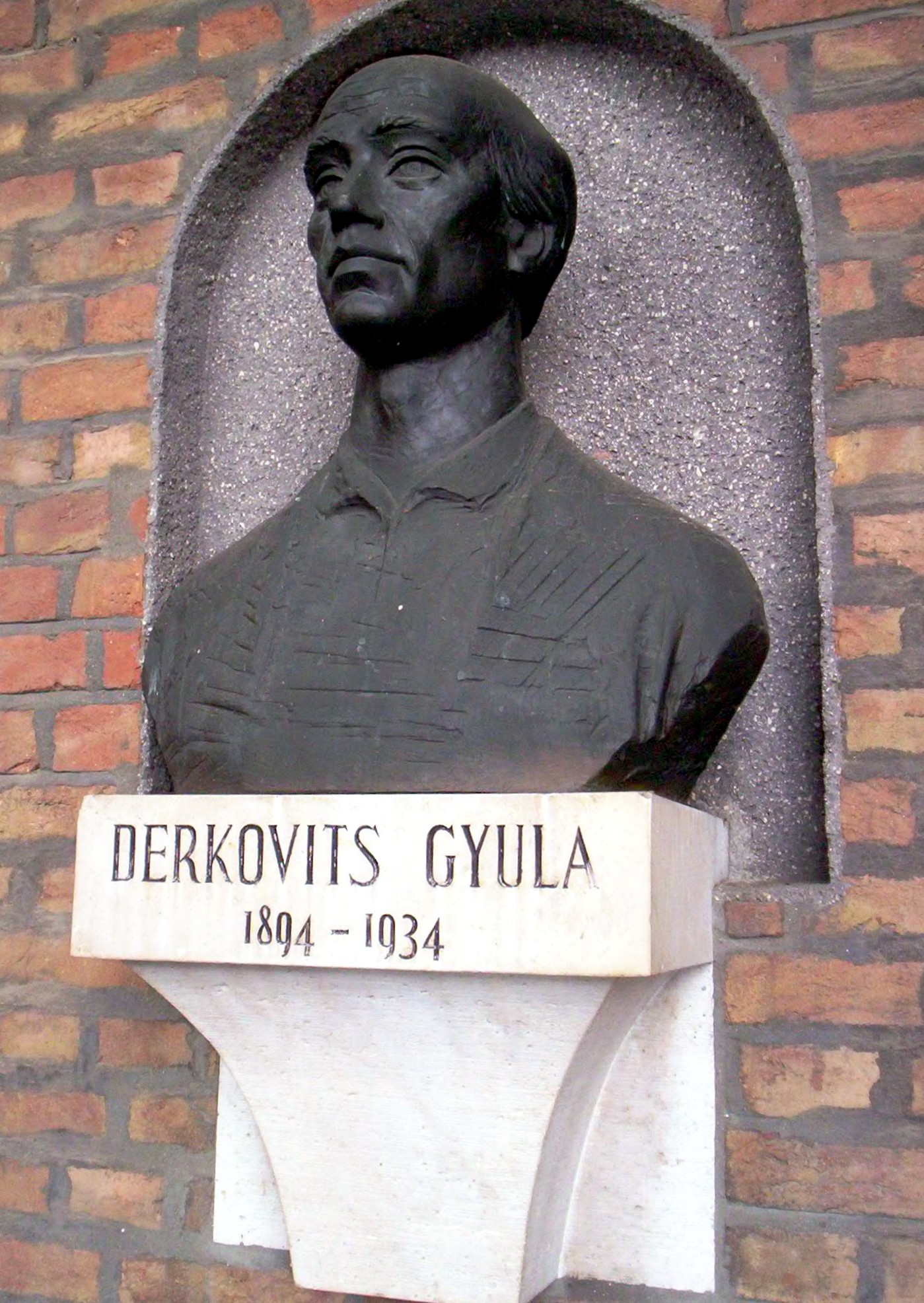 Bust of hungarian painter, Gyula Derkovits in Szeged Pantheon. Sculptor: Sándor Mikus (1969)